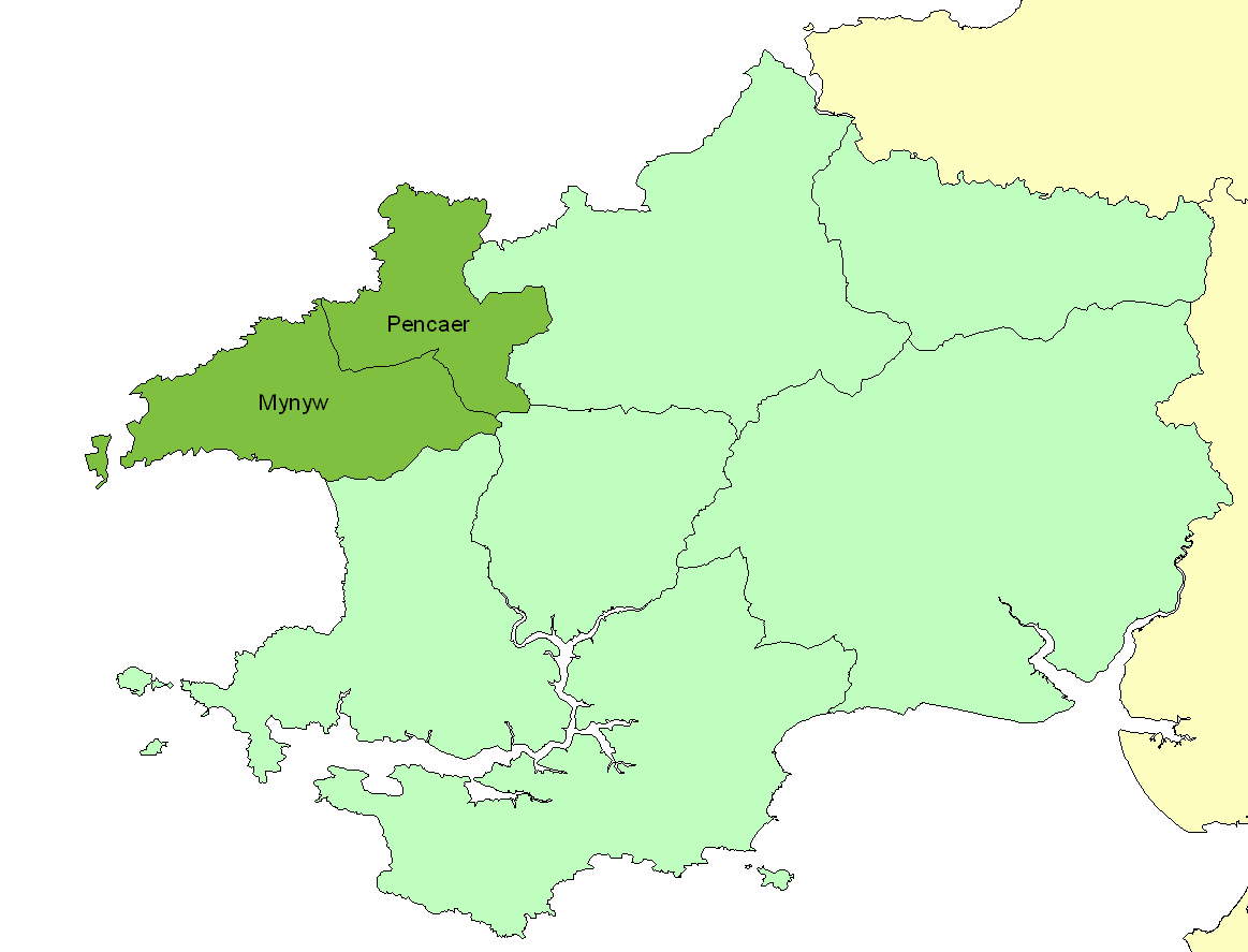 Map: Dyfed (Wales): Cantef Pebidiog: its commotes.